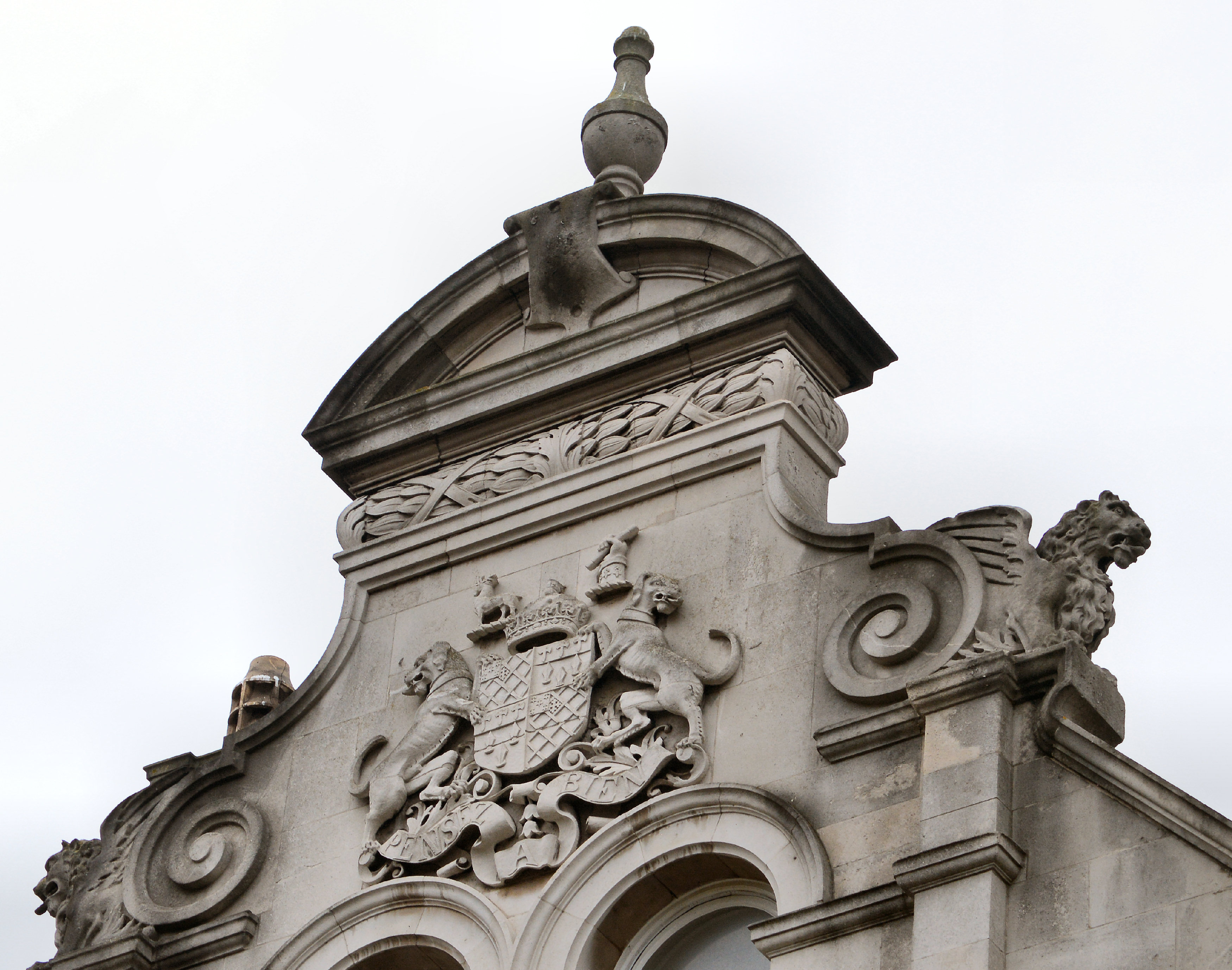 Surrey County Hall, Kingston, coat of arms of 1st Earl of Lovelace over façade.